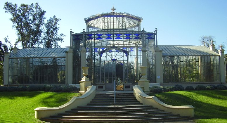 Front of the Palm/Tropical house at the Adelaide botanic gardens